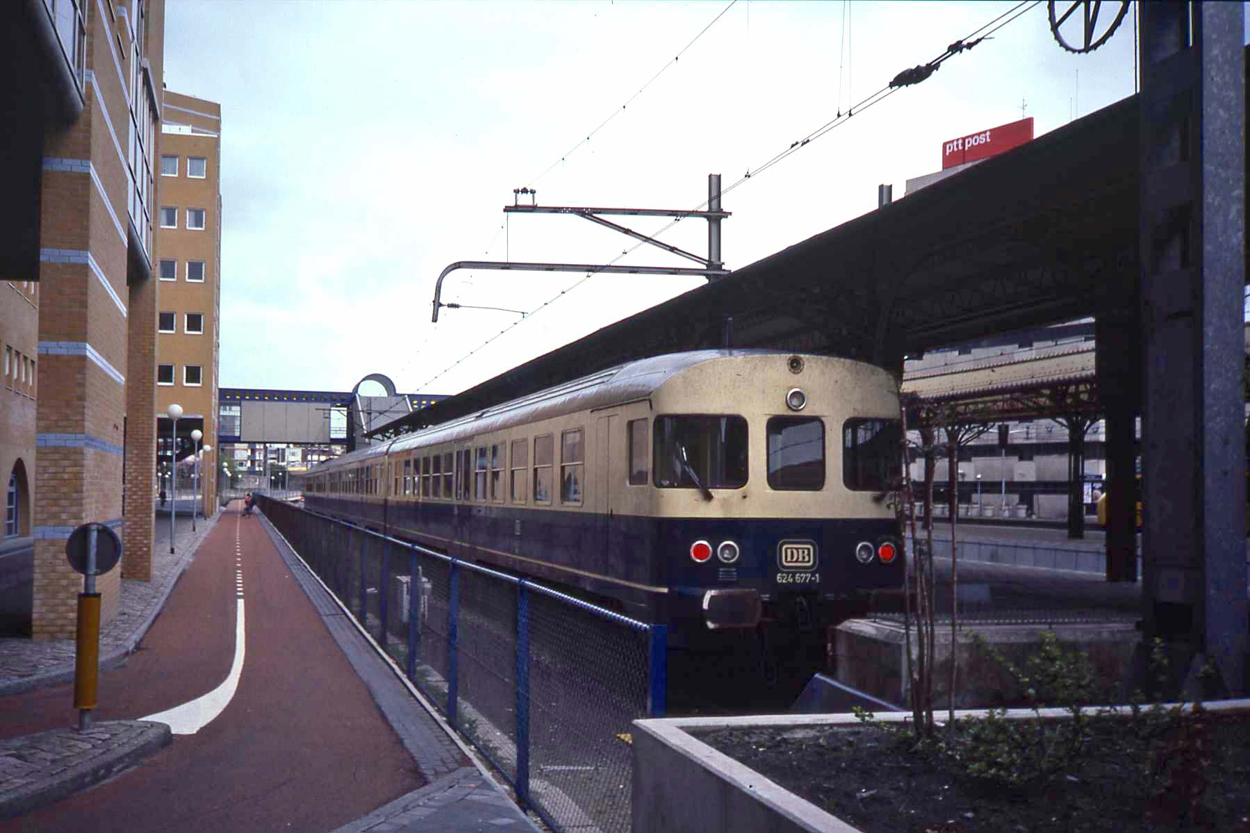 German railcar in a sidetrack in Groningen station. This train goes to Leer (Germany).